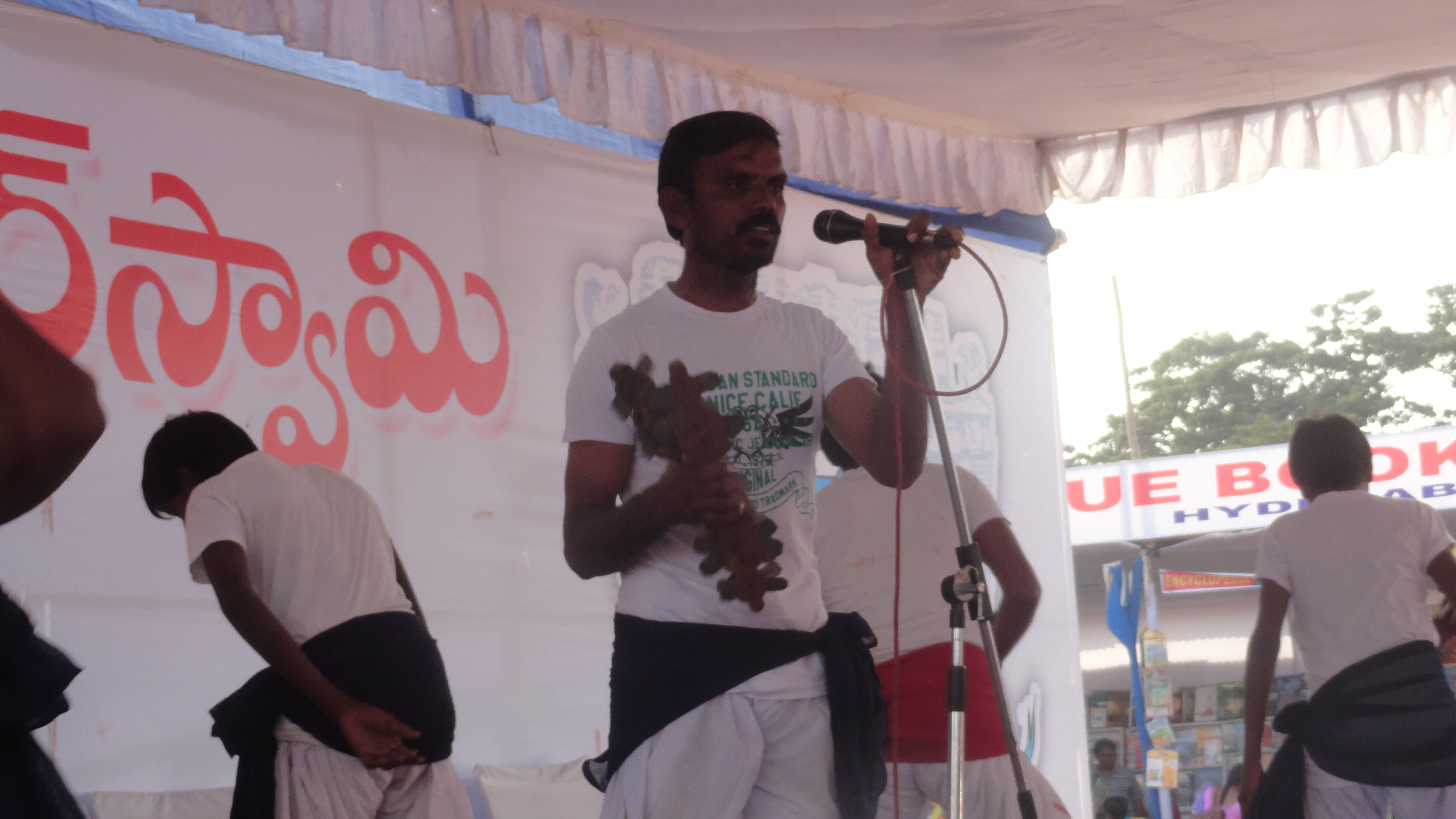 Devotional dance at HYD book fair